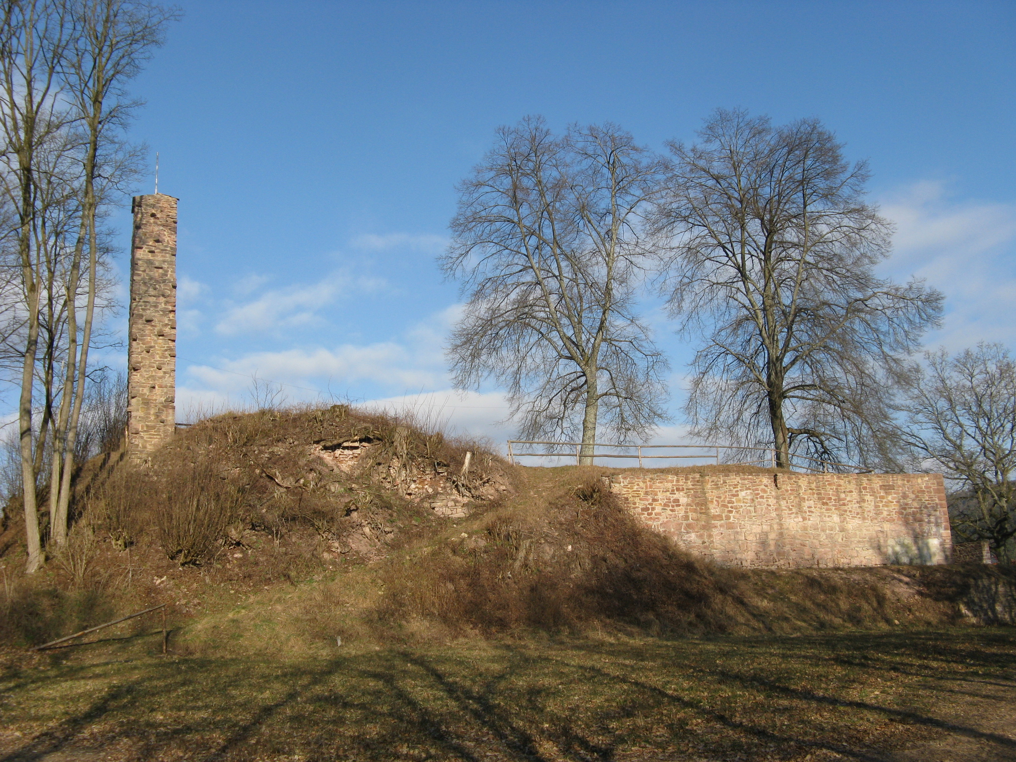 Bartenstein Castle, above Partenstein (Spessart/Germany)